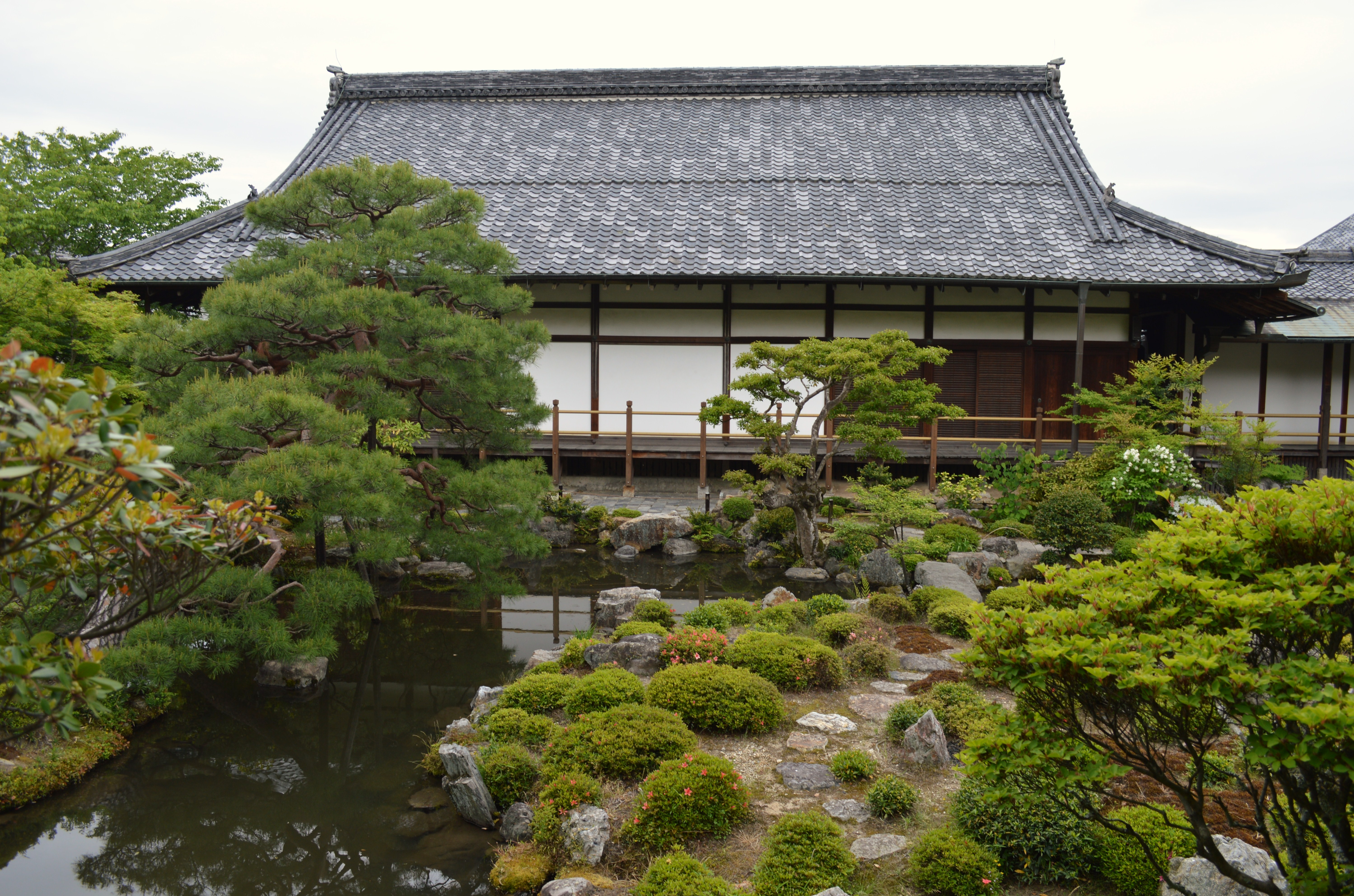 Tōji-in, Main Hall and Japanese Garden